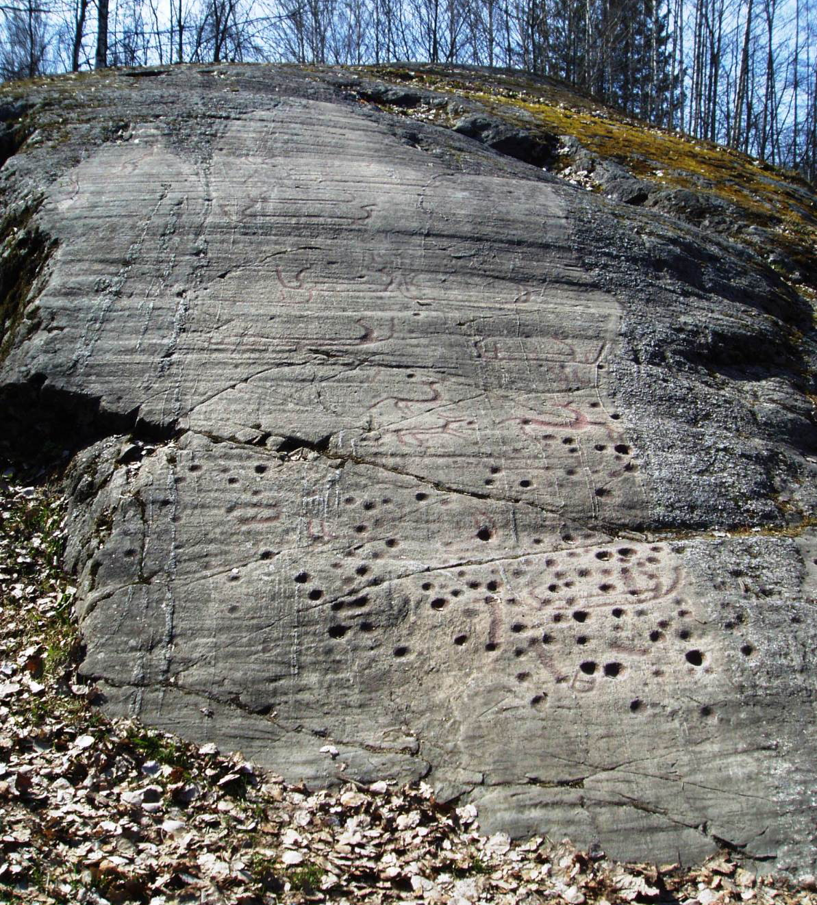 Petroglyphs at Slagsta, Botkyrka municipality, Sweden